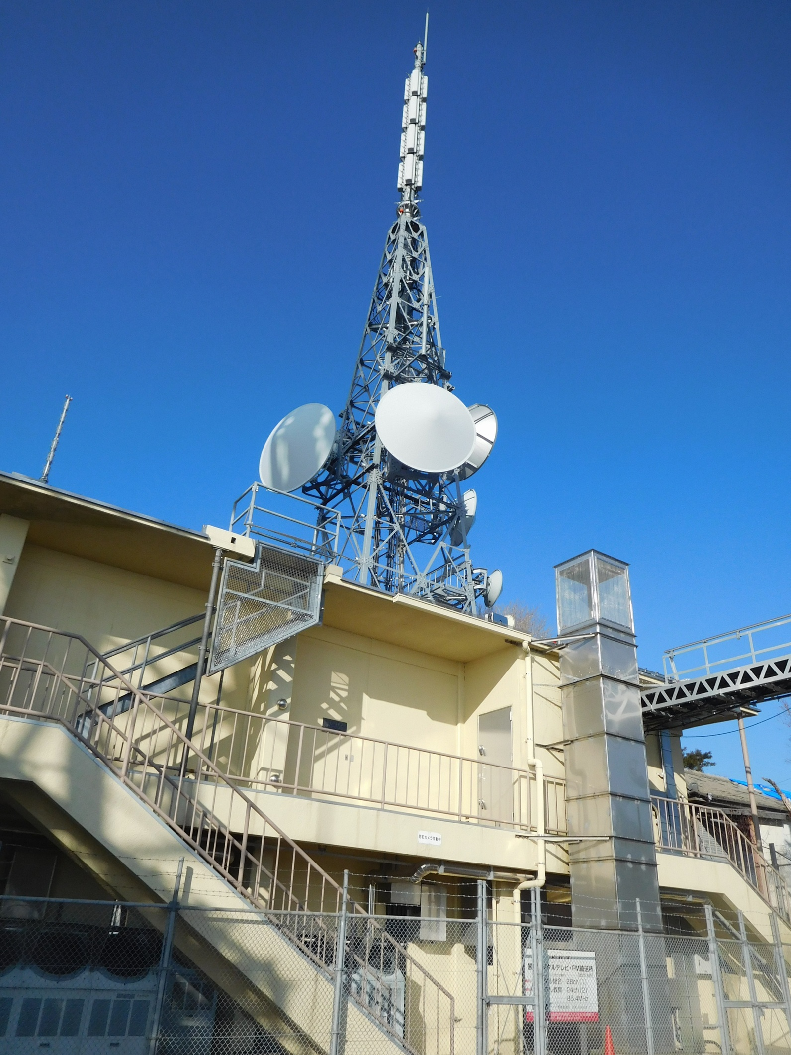 NHK Kumamoto (JOGK-DTV, JOGB-DTV) Kinbo-zan (Kumamoto) Digital TV Transmitting Tower in 2015 (Kumamoto City, Japan)